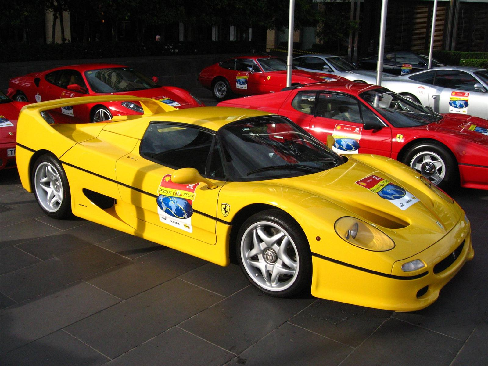 Ferrari F50 - front right view 2007 Grand Prix Festival Celebrating Ferrari’s 60th Anniversary. Crown Casino, Melbourne, Australia. Photo taken by Luke van Grieken on 3 March 2007 using a Canon IXUS 750 camera. Additional supercar images available at